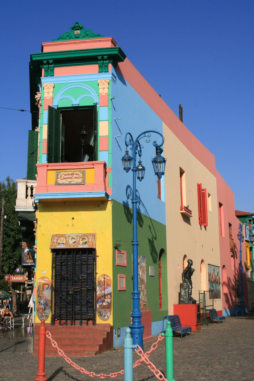 Partial view of the Caminito, in the La Boca section of Buenos Aires.